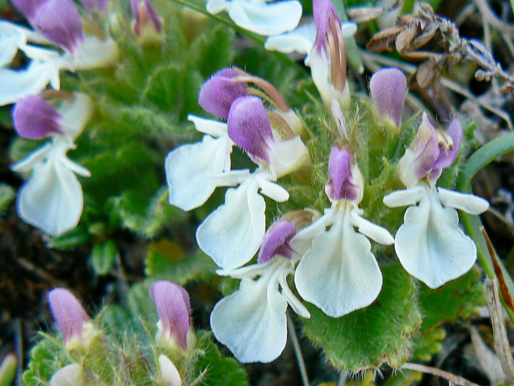 Teucrium pyrenaicum, detail flower, Picos de Europa, Spain